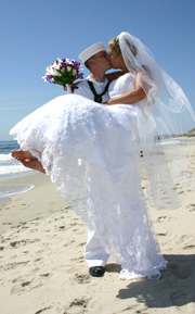 Beach wedding in San Diego, California